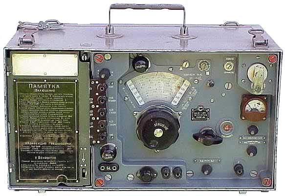 R-311 HF receiver (USSR, 1954). Also used widely by amateur operators.